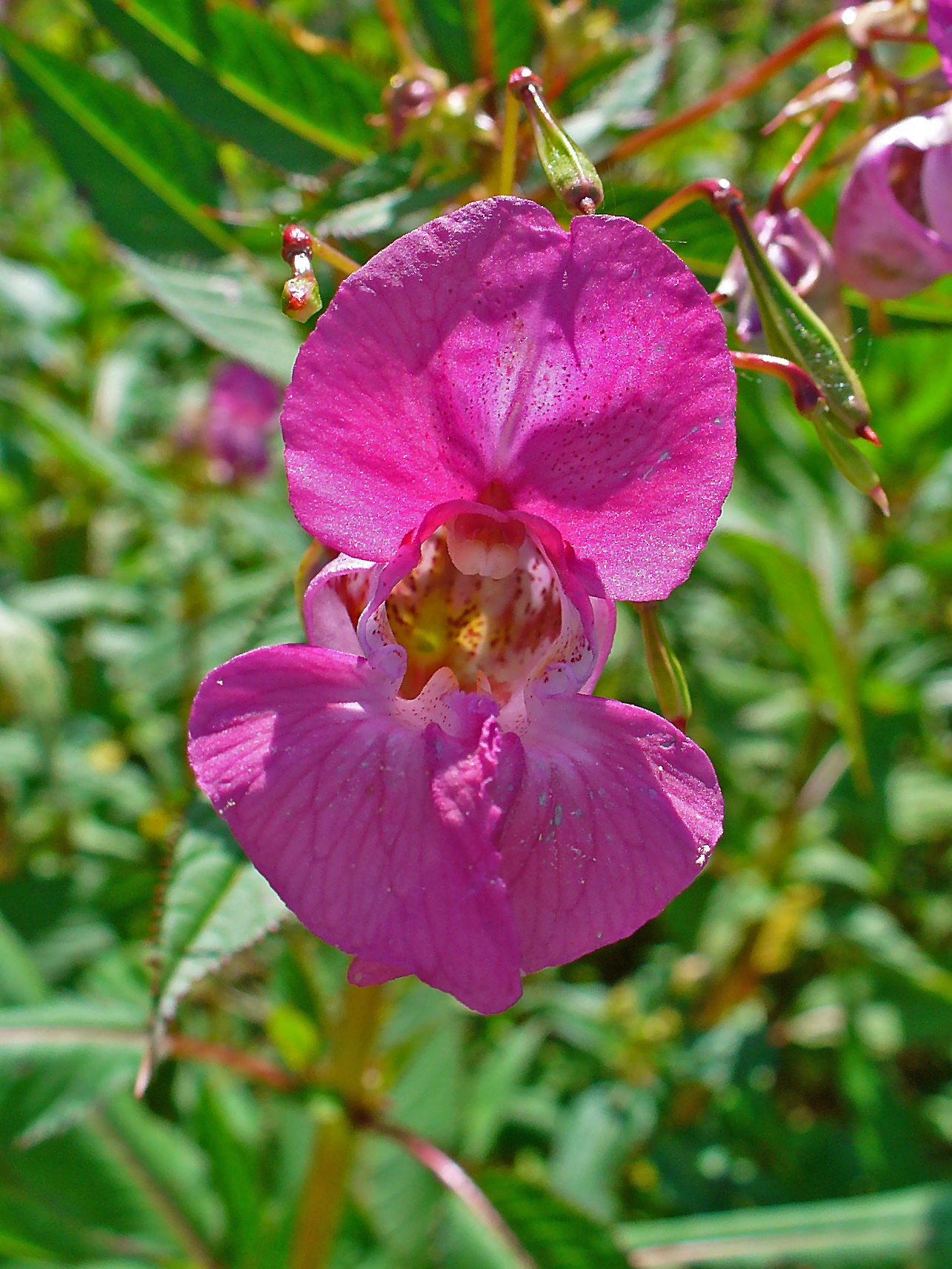 Impatiens glandulifera, Balsaminaceae, Himalayan Balsam, Kiss-me-on-the-mountain, Indian Balsam, flower; Karlsruhe, Germany.